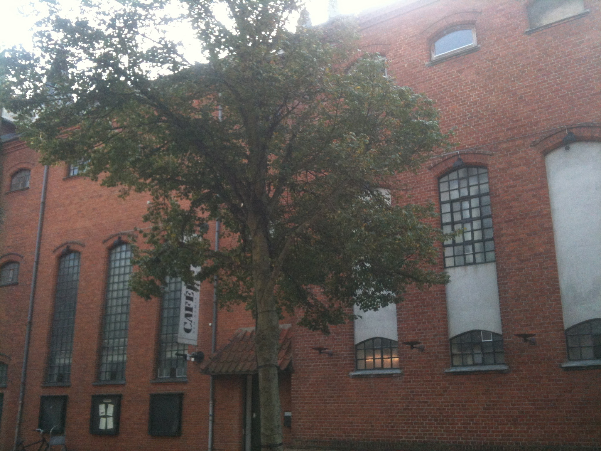 Den Gamle Arrest (The Old Prison) - Vejle - DenmarkDansk: Den Gamle Arrest - Vejle - Denmark